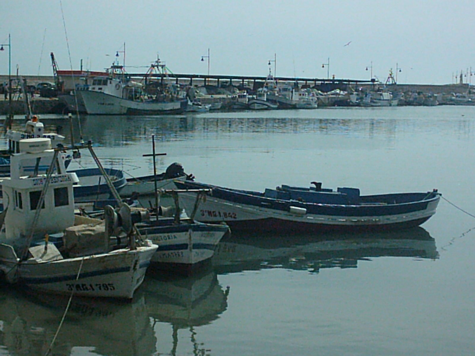 Some fishing boats in the fishing port in the town of Estepona, Andalucia, Spain